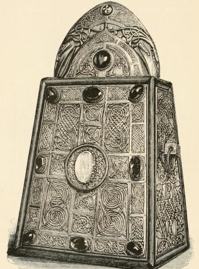 Image of Shrine of St. Patrick's Bell. Illustration from the 1897 book Historic Ornament: Treatise on Decorative Art and Architectural Ornament, vol.2 by James Ward (1851-1924)